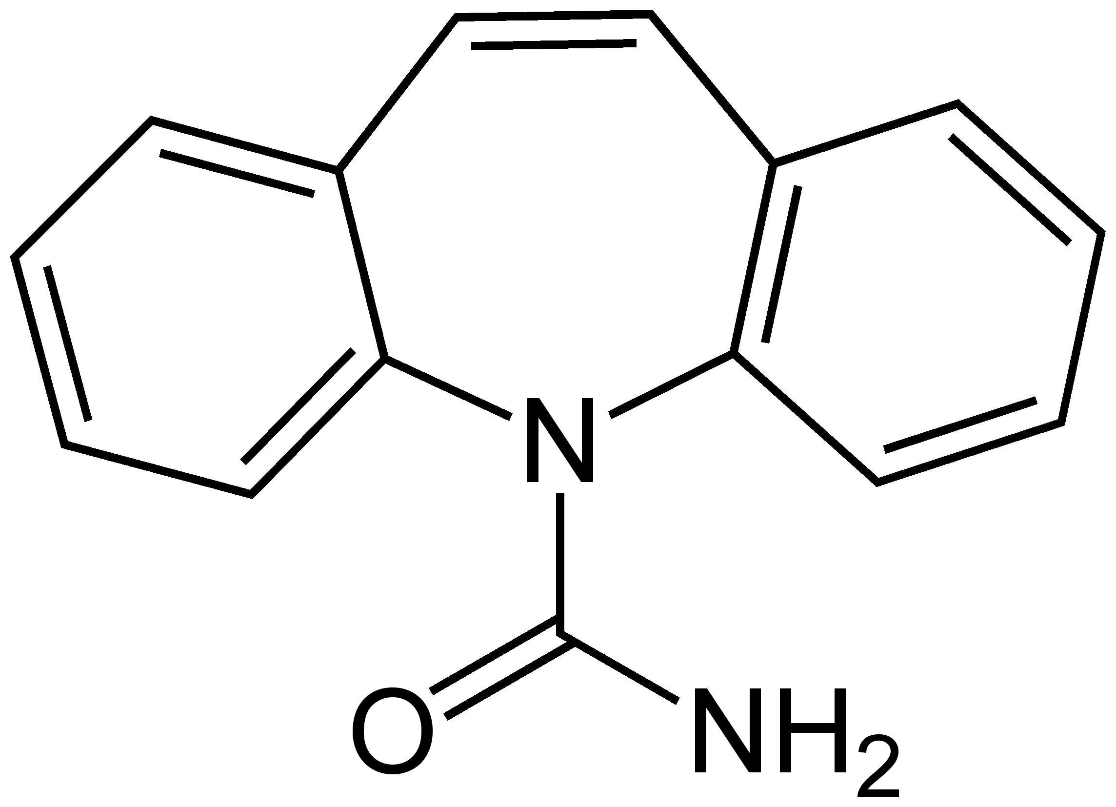 Carbamazepine_Structural_Formulae